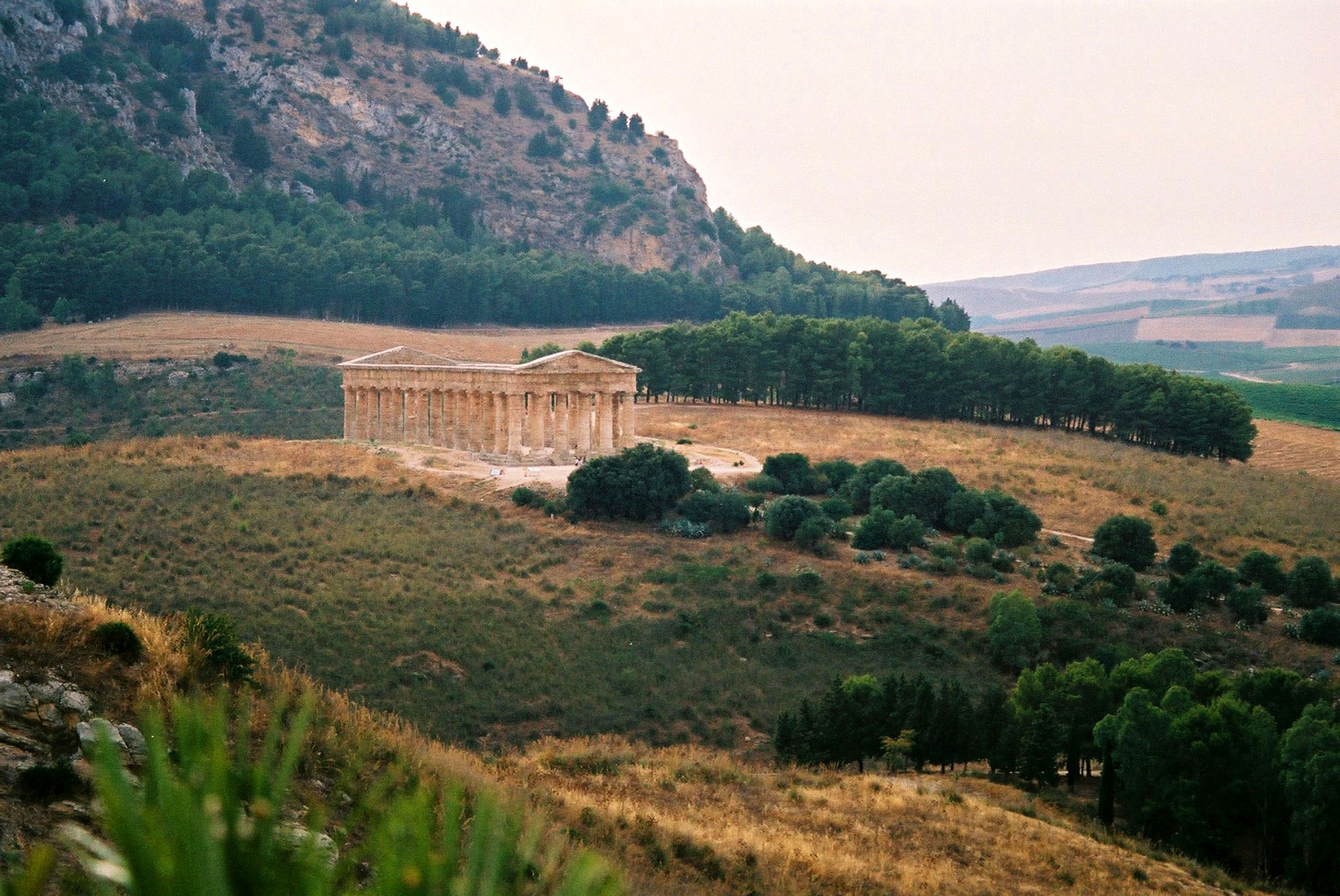 Temple of Segesta Seen from the site of the ancient town